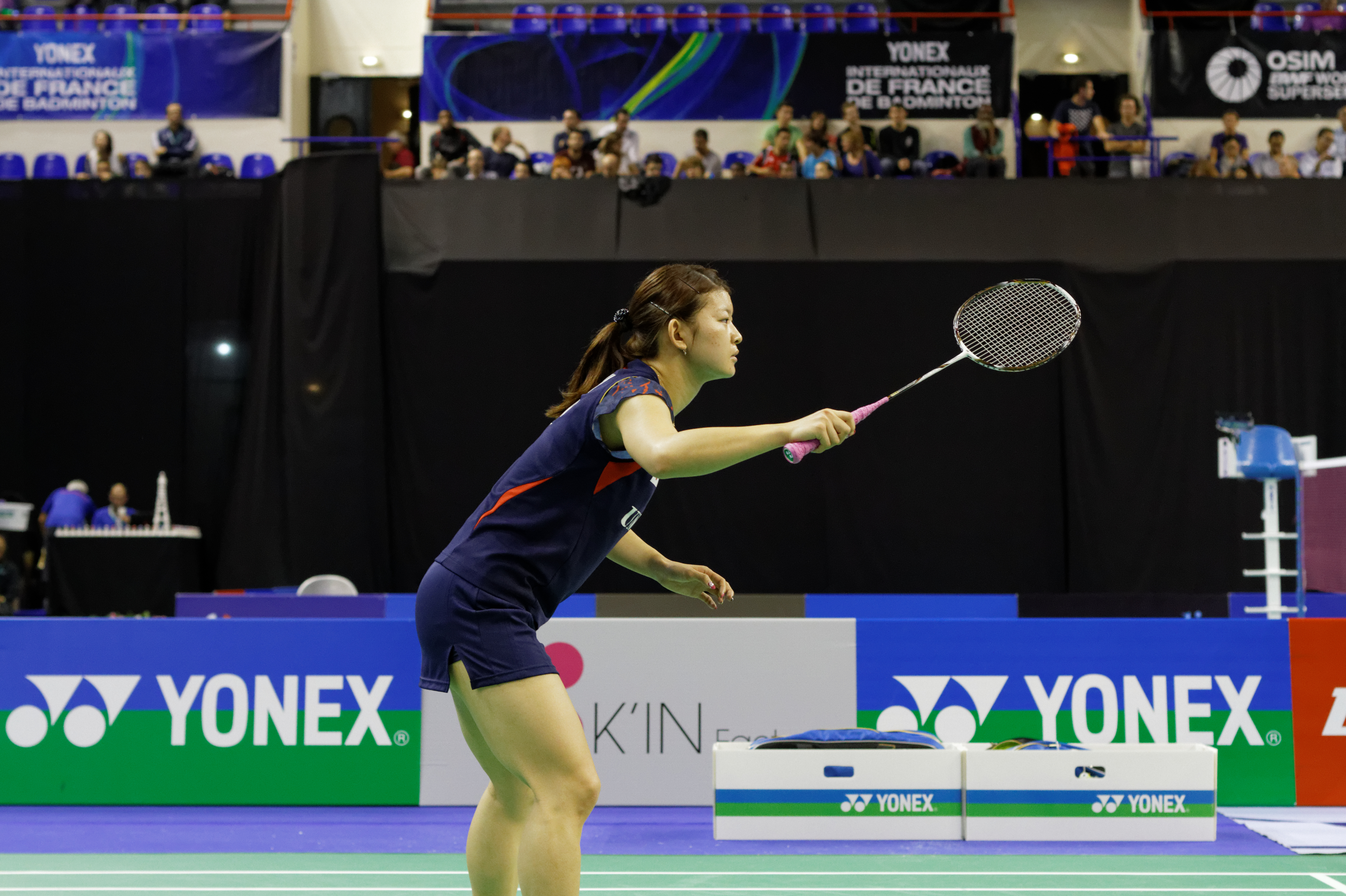 2013 French open. Women's doubles quarterfinal. Tian Qing and Zhao Yunlei vs Misaki Matsutomo and Ayaka Takahashi.